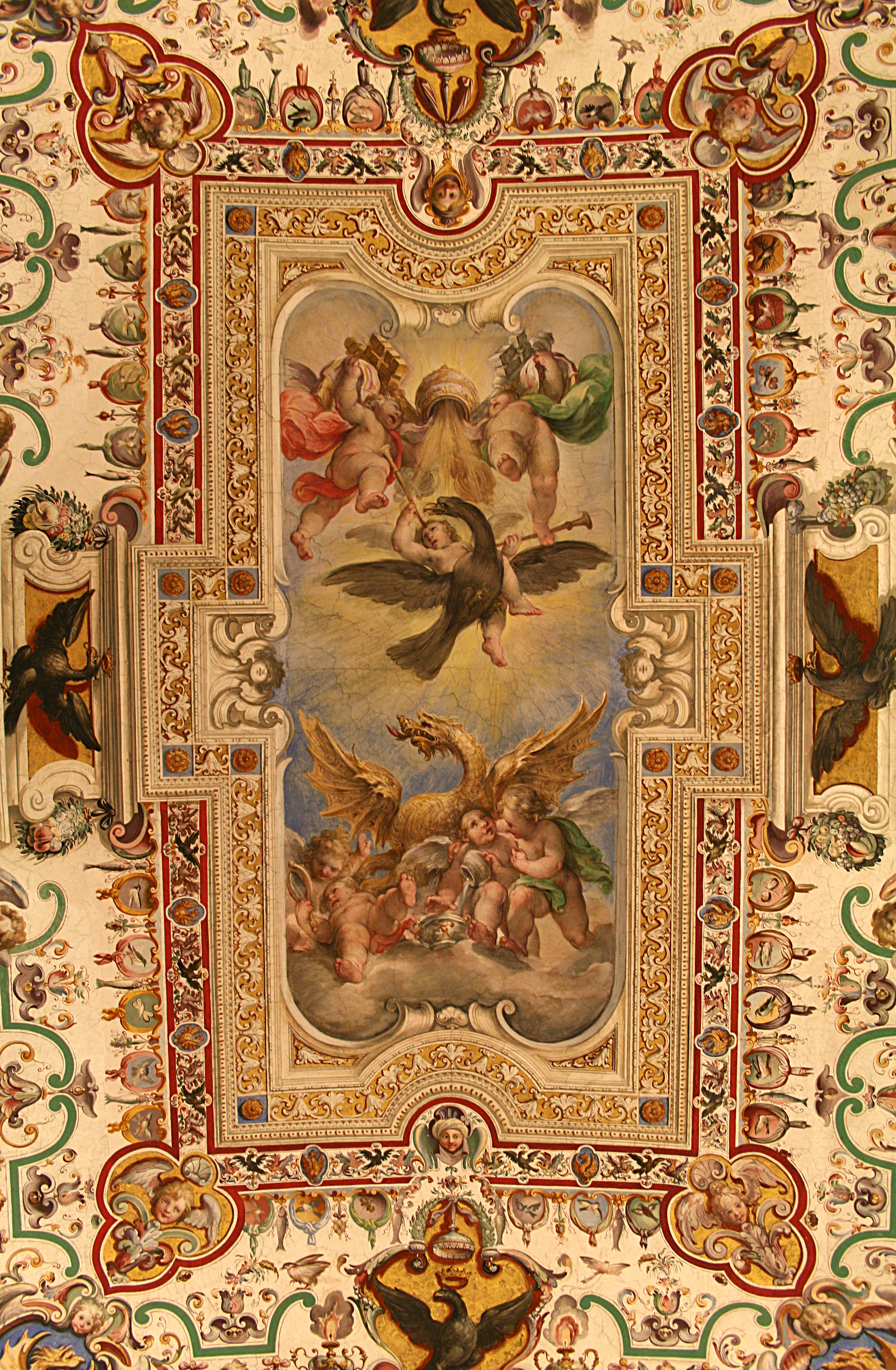 Ceiling of the Sale Sistine - Hall of Papal Archives - Domenico Fontana.